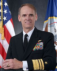 Command photograph of VADM Tom Kilcline